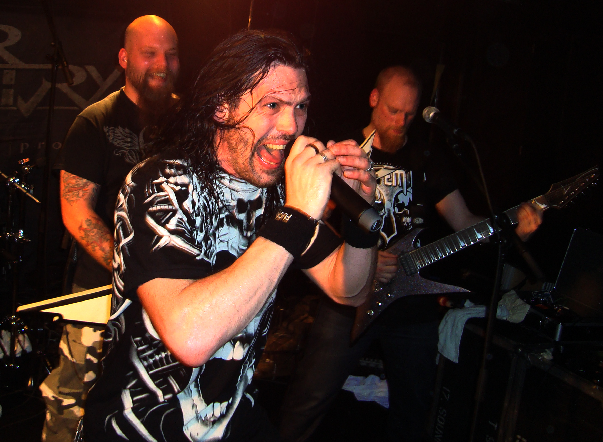 Vocalist Lars Palmqvist and guitarists Jonas Kjellgren and Per Nilsson in Scar Symmetry